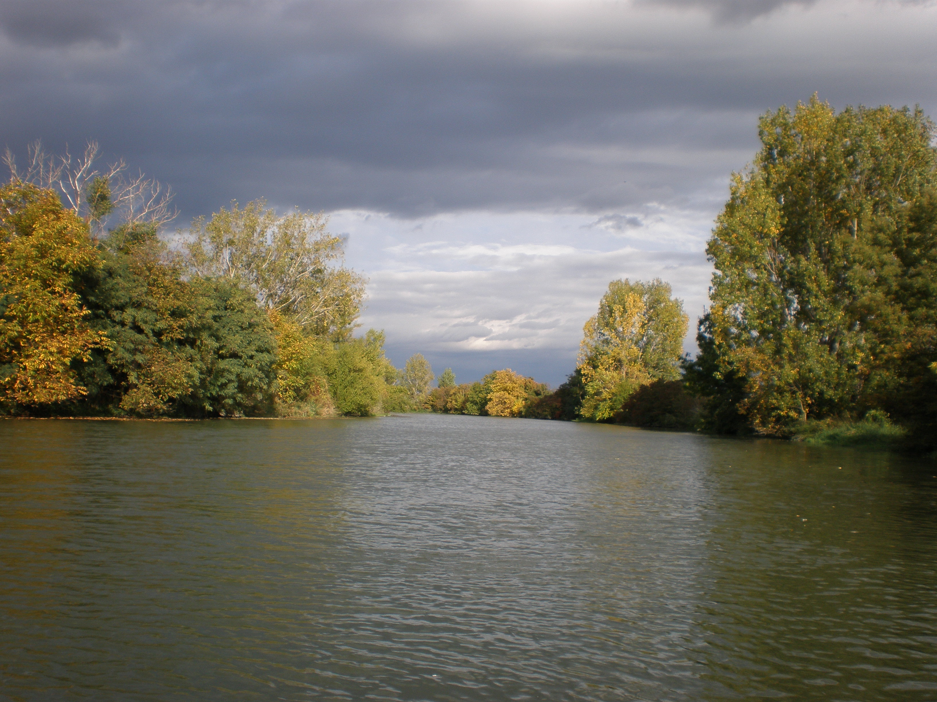 Maly Dunaj river near Zálesie, Slovakia